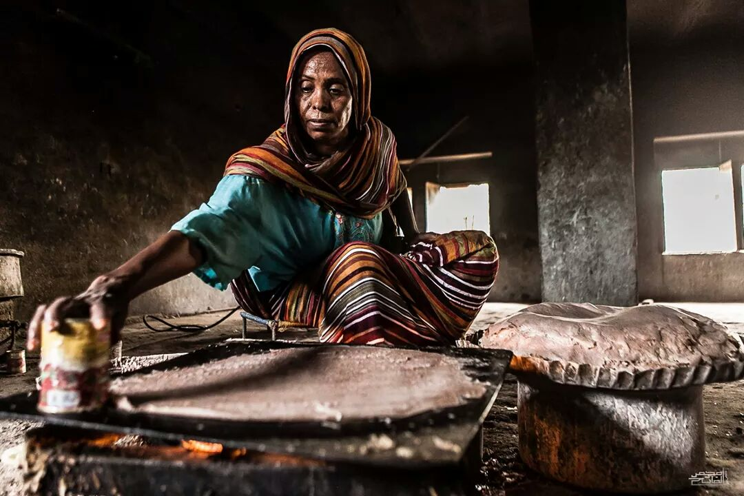 Sudanese woman making the traditional bread called kisra.